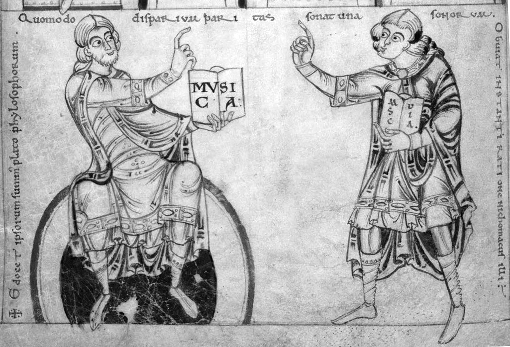 Illustration of Nicomachus and Plato depicted as inventors of music